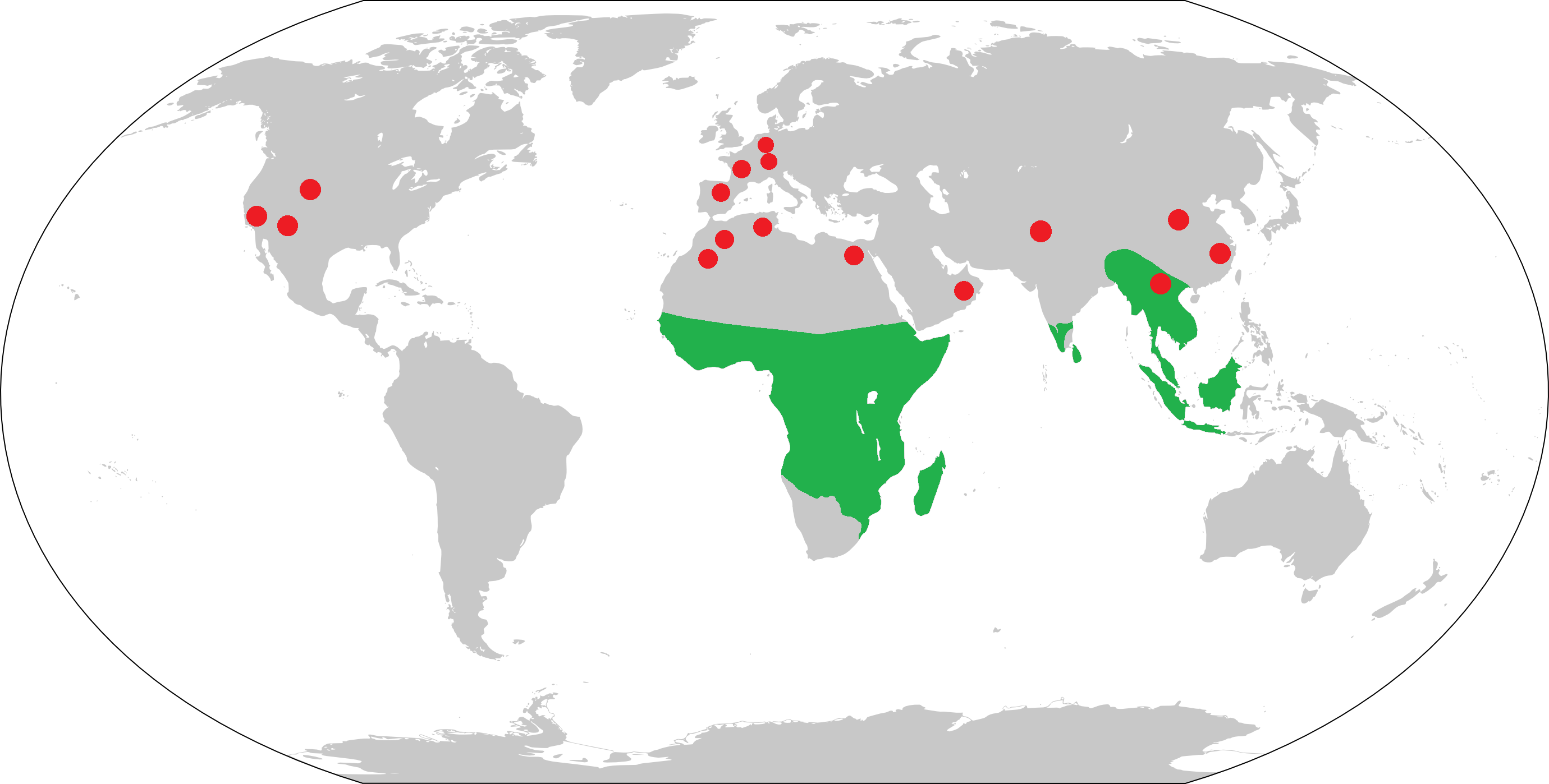 Extant strepsirrhine range (green) with Eocene-Miocene fossil sites (red)